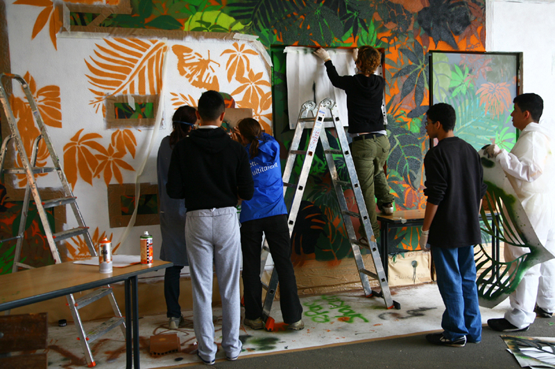 Pupils working on a graffito as part of the projekt "Weil wir es wert sind!" ("Because we're worth it!") by OroVerde.